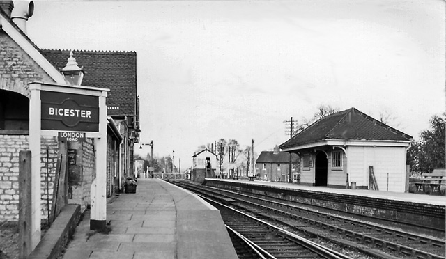 Bicester (London Road) Station. View NE, towards Bletchley, Bedford and Cambridge; ex-LNW (Cambridge - Bedford -) Bletchley - Oxford line. 'London Road' added to name 3/54. Closed 1/1/68, along with Bletchley - Oxford line; reopened as 'Bicester Town' 11/5/87 when service restored from Oxford.